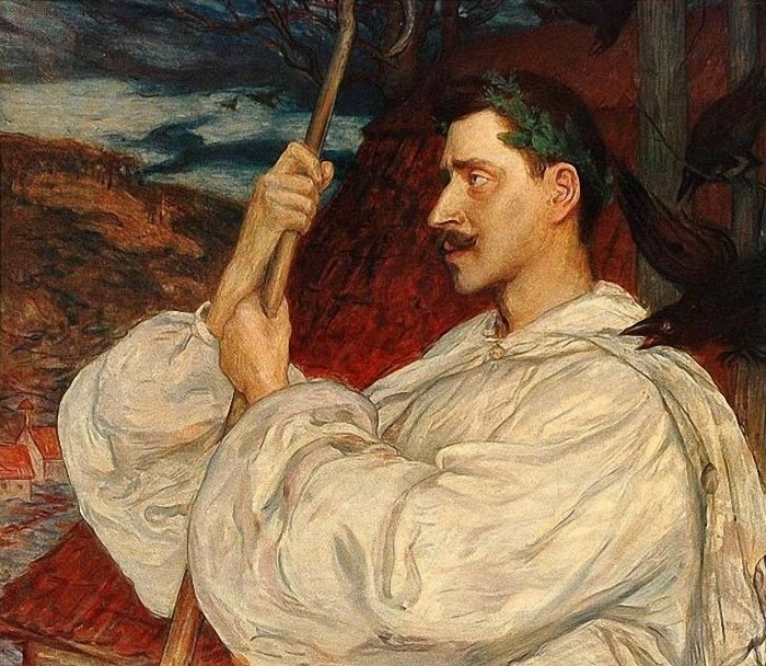 Detail of a portrait by Hanna Pauli of the author Verner von Heidenstam as Hans Alienus, a figure he created for a novel